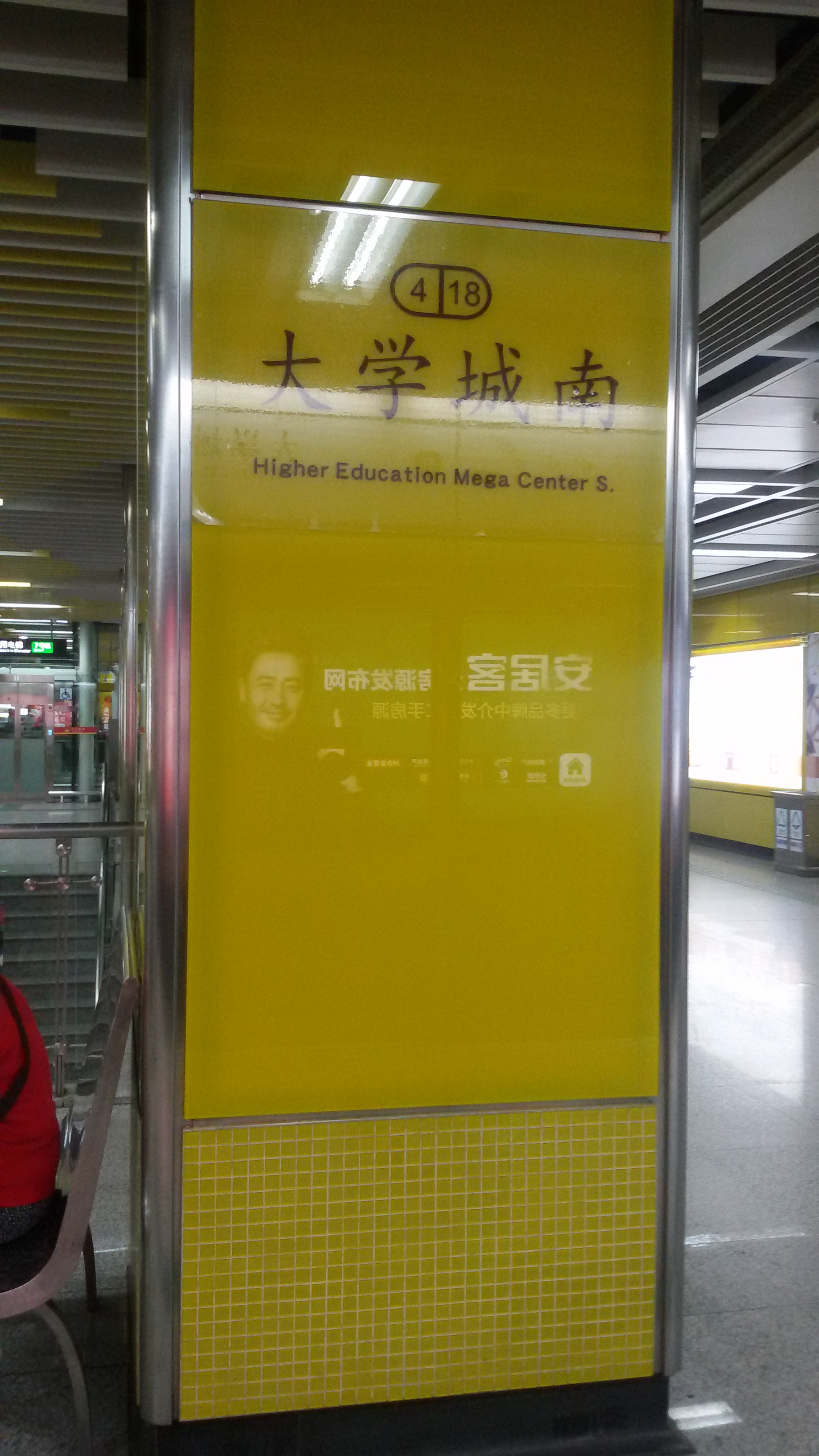 WORD on PILLAR for Line 4 in Higher Education Mega Center South Station, Guangzhou Metro